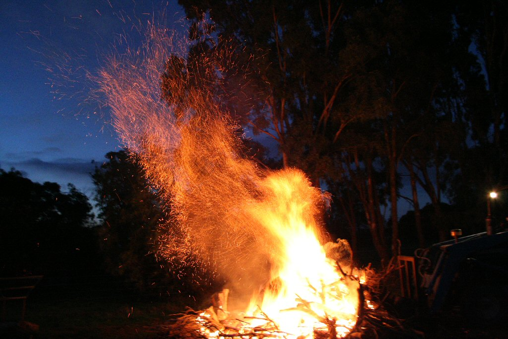 Sparks from a large bonfire. Despite the title, these are not what is generally called embers, as they are small and airborne. However, both sparks and embers are combusting solids.